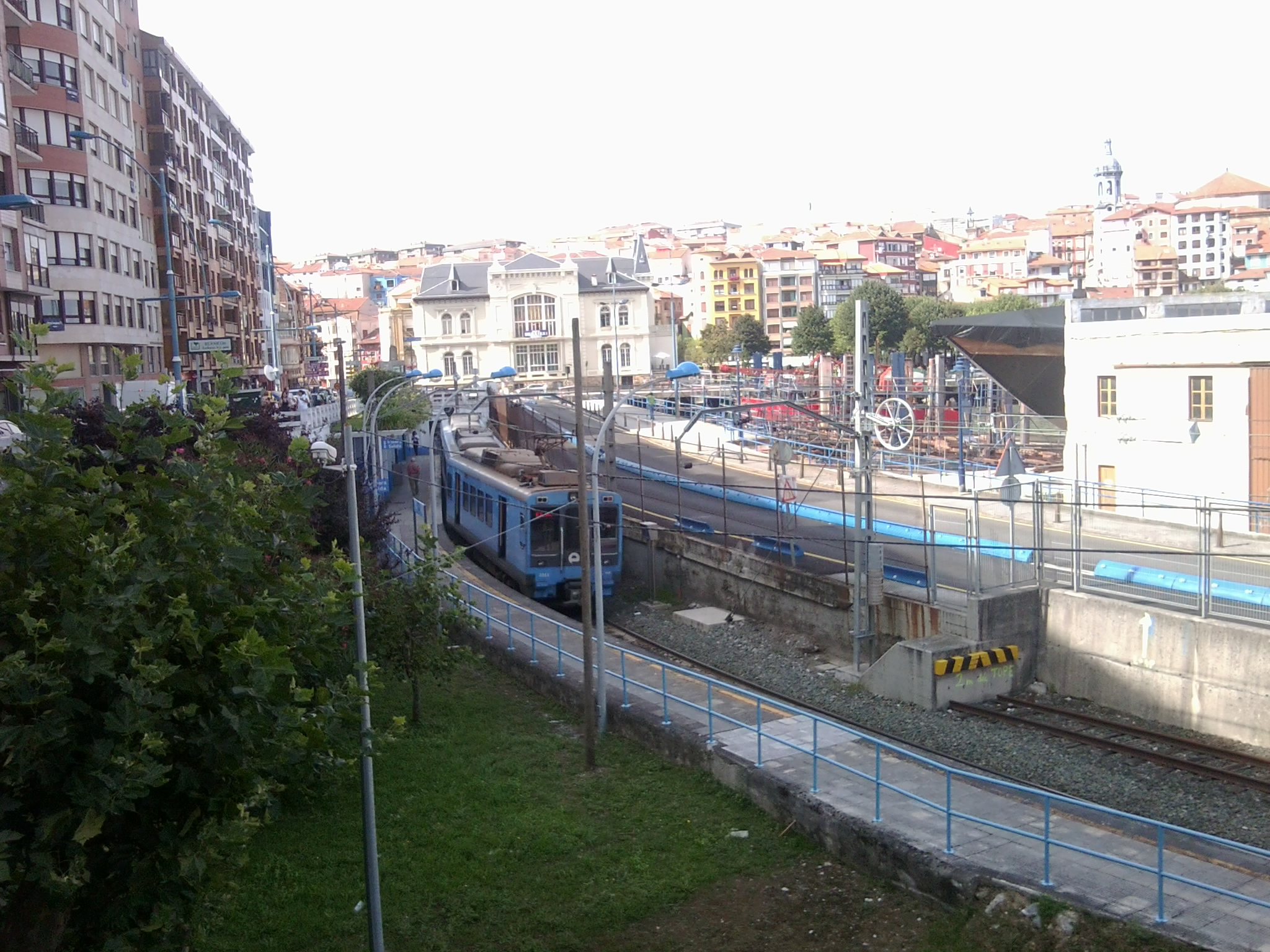 The train station of Bermeo